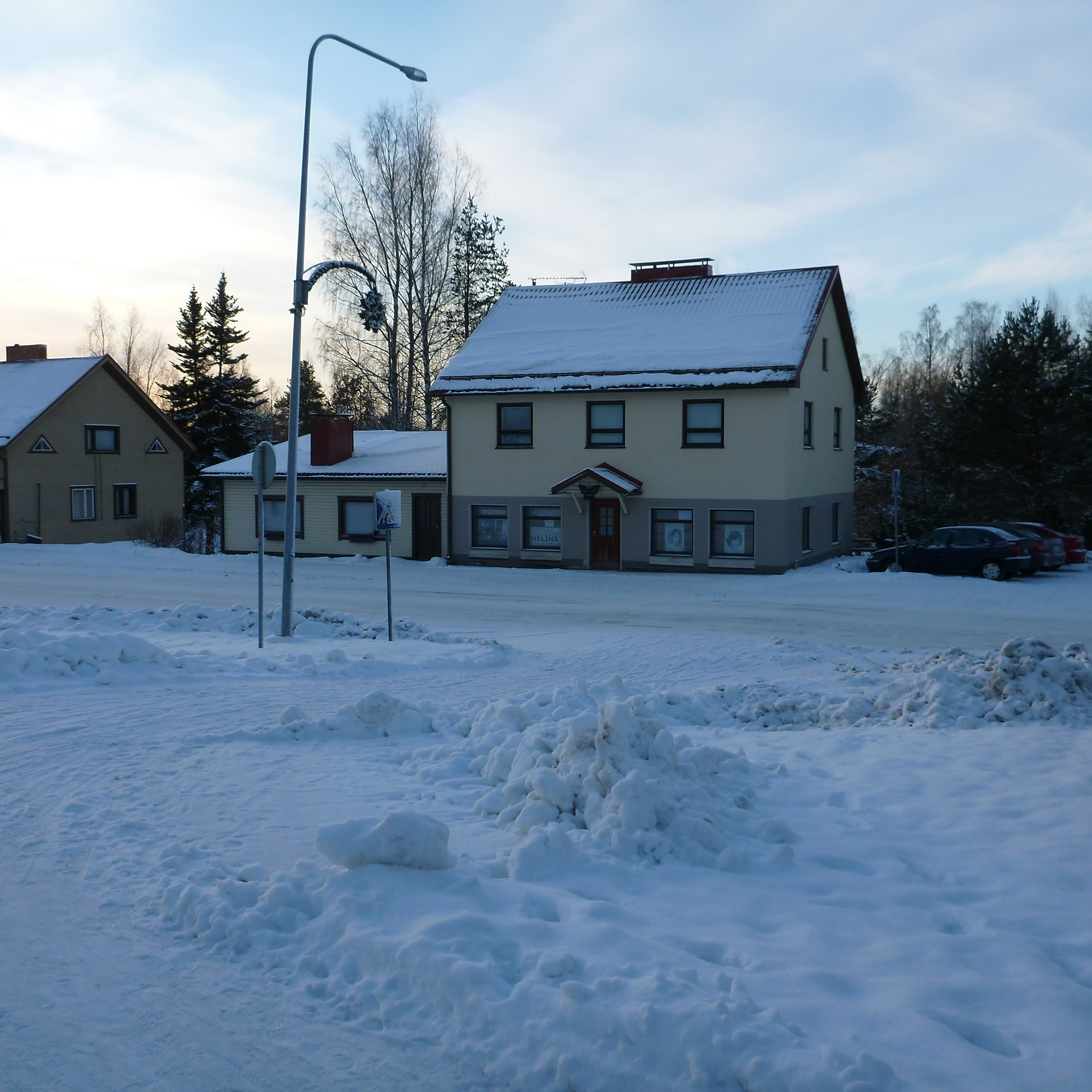 Houses in Petäjävesi, Finland